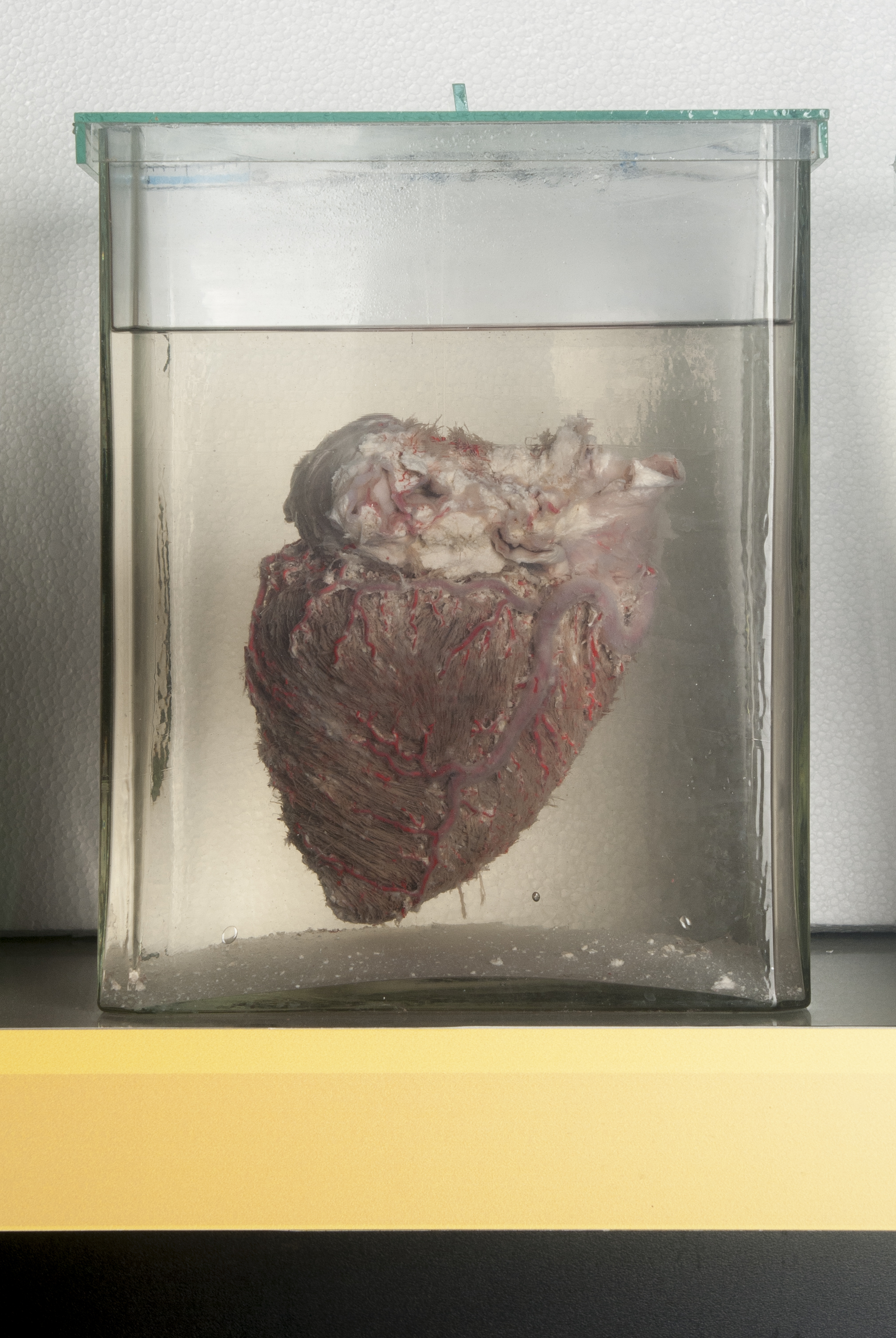 Bovine heart. Technique of latex injection and formalin fixation on display at the Museum of Veterinary Anatomy, FMVZ USP. This file was published as the result of a partnership between the Museum of Veterinary Anatomy FMVZ USP, the RIDC NeuroMat and the Wikimedia Community User Group Brasil. This GLAM project is reported. Photography: Museum of Veterinary Anatomy FMVZ USP. Author: Wagner Souza e Silva.